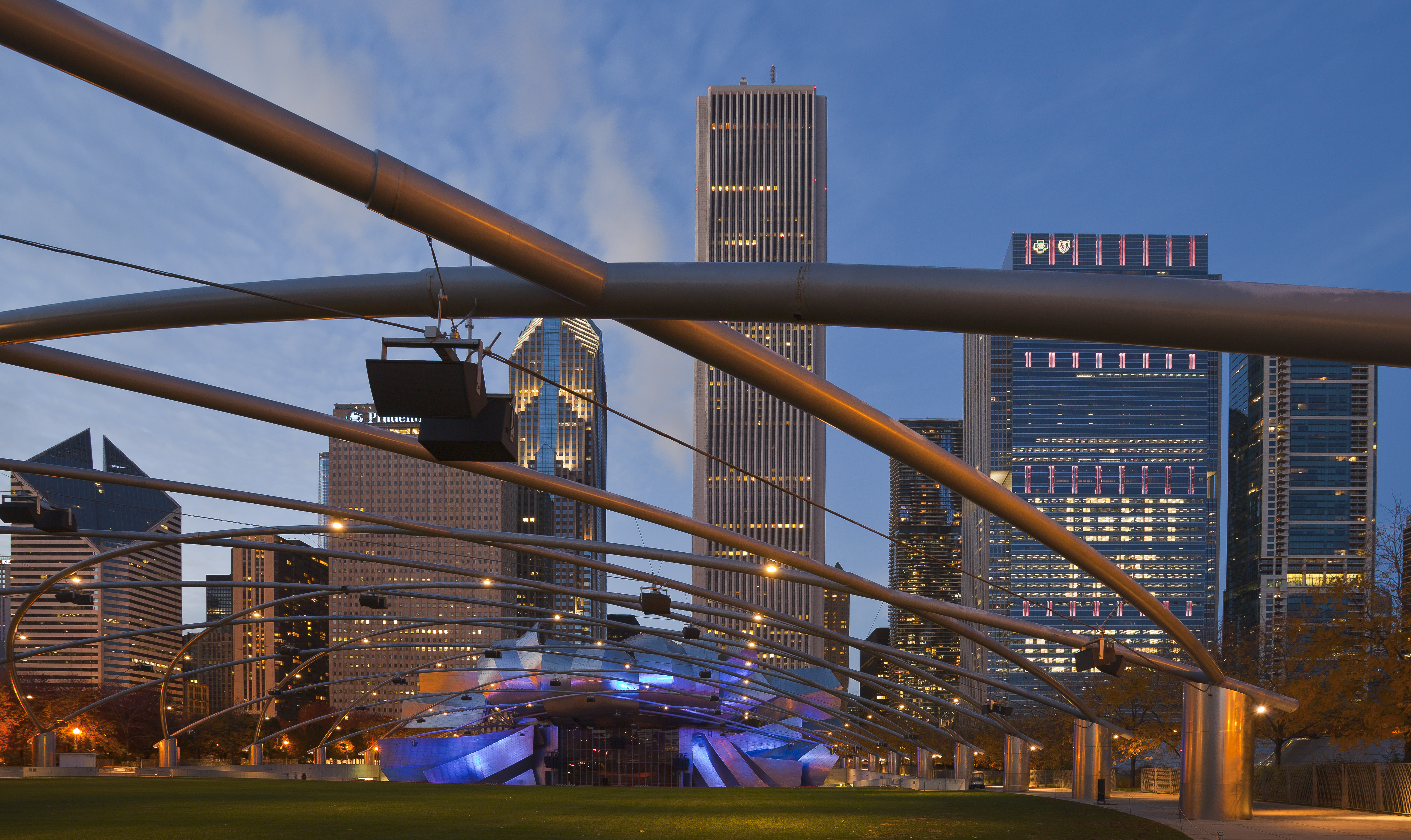 Jay Pritzker Pavilion, Chicago, Illinois, USA